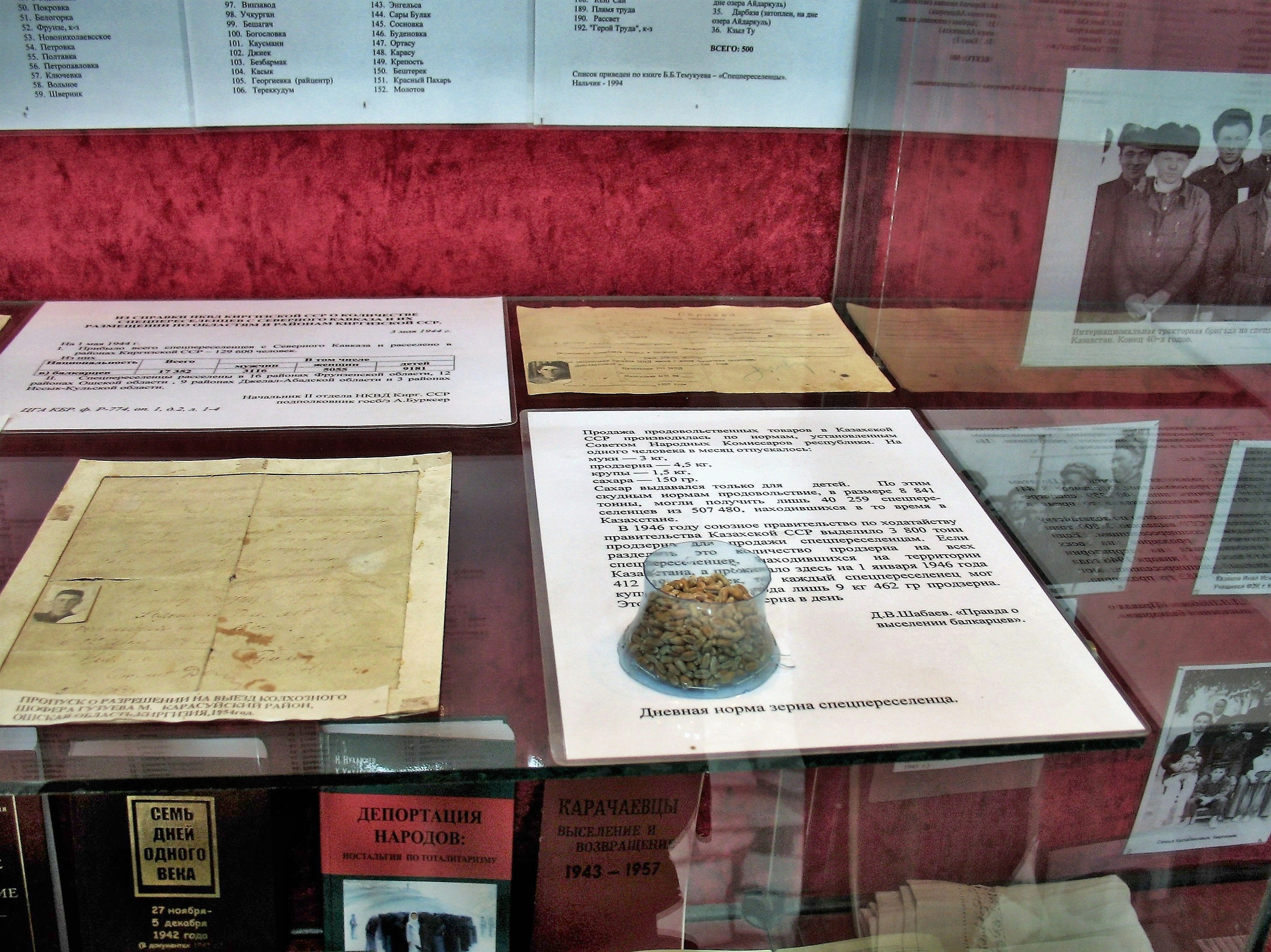 Victims of Deportation Memorial in Nalchik, Kabardino-Balkaria